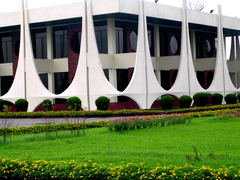 Zia International Airport VIP terminal